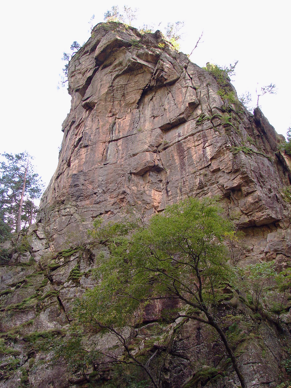 Odaesan National Park, located in the province of Gangwon South Korea was designated as a national park in 1975, is named after the 1,563-meter Odae mountain. The name "Odaesan" means "mountain of five plateaus", which refers to the five plateaus found between its five peaks.